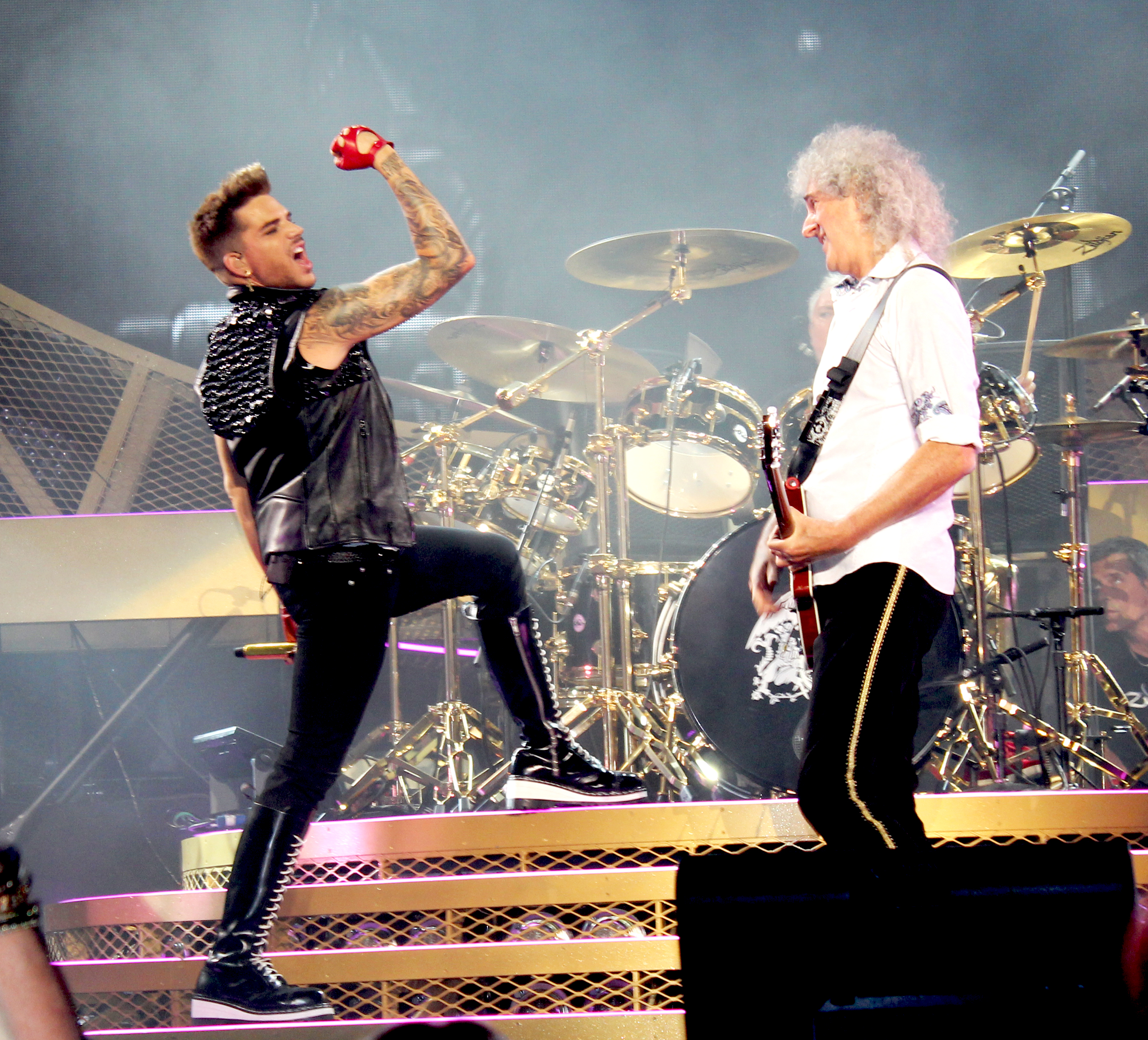 Adam Lambert and Brian May perform 'Crazy Little Thing Called Love' at MSG, on 17th July, 2014